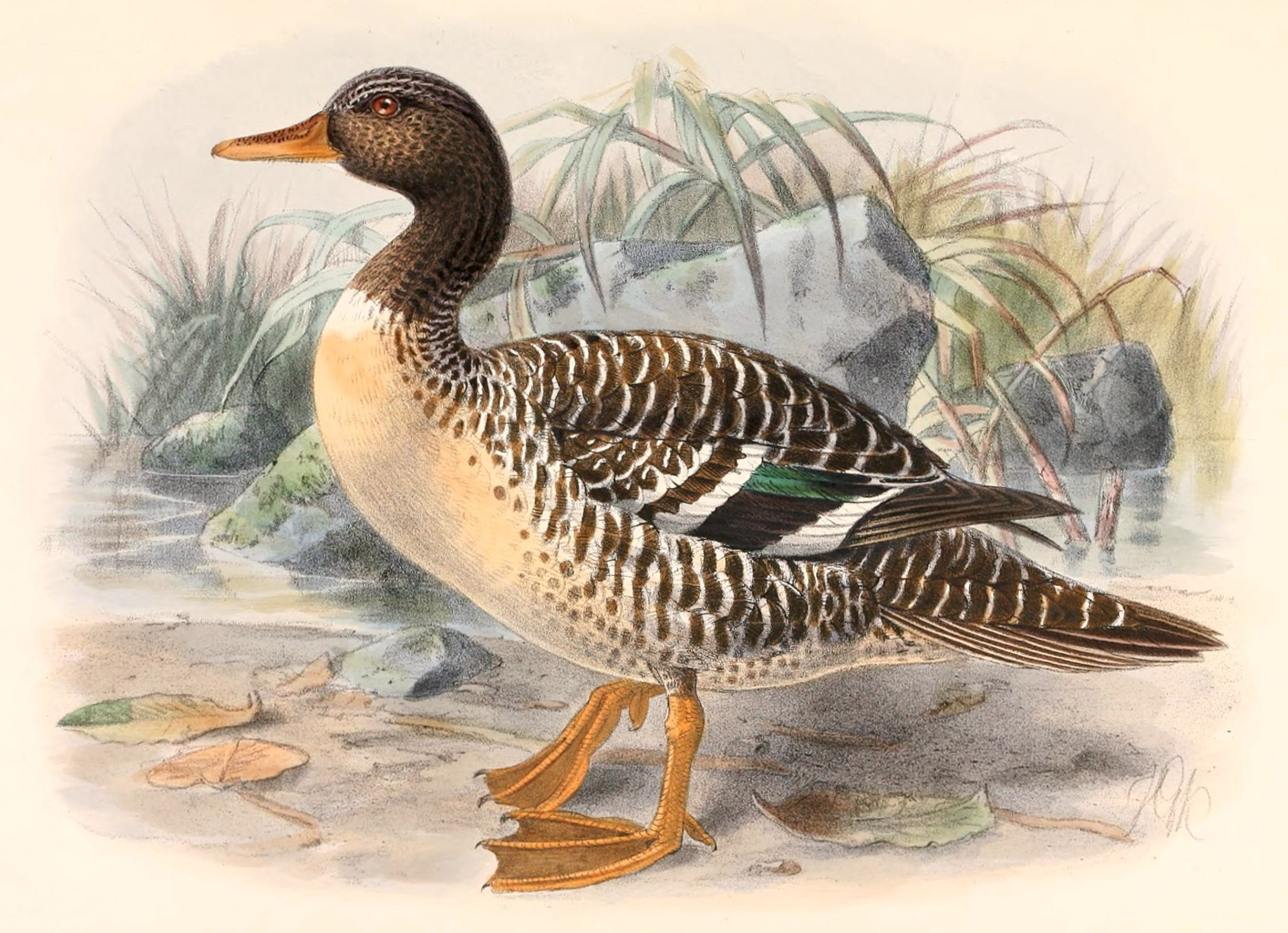 « Salvadorina waigiuensis » = Salvadorina waigiuensis (Salvadori's Teal)